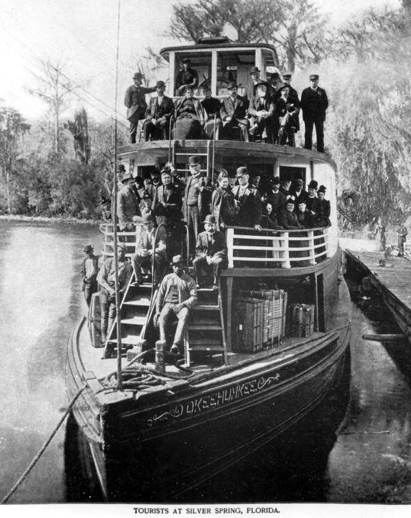 Tourists aboard the river steamboat "Okeehumkee" - Silver Springs, Florida